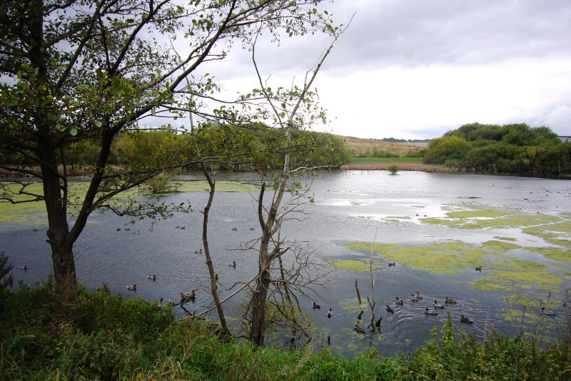 Catcliffe Flash, a Local Nature Reserve between the villages of Catcliffe and Treeton in the Rother valley